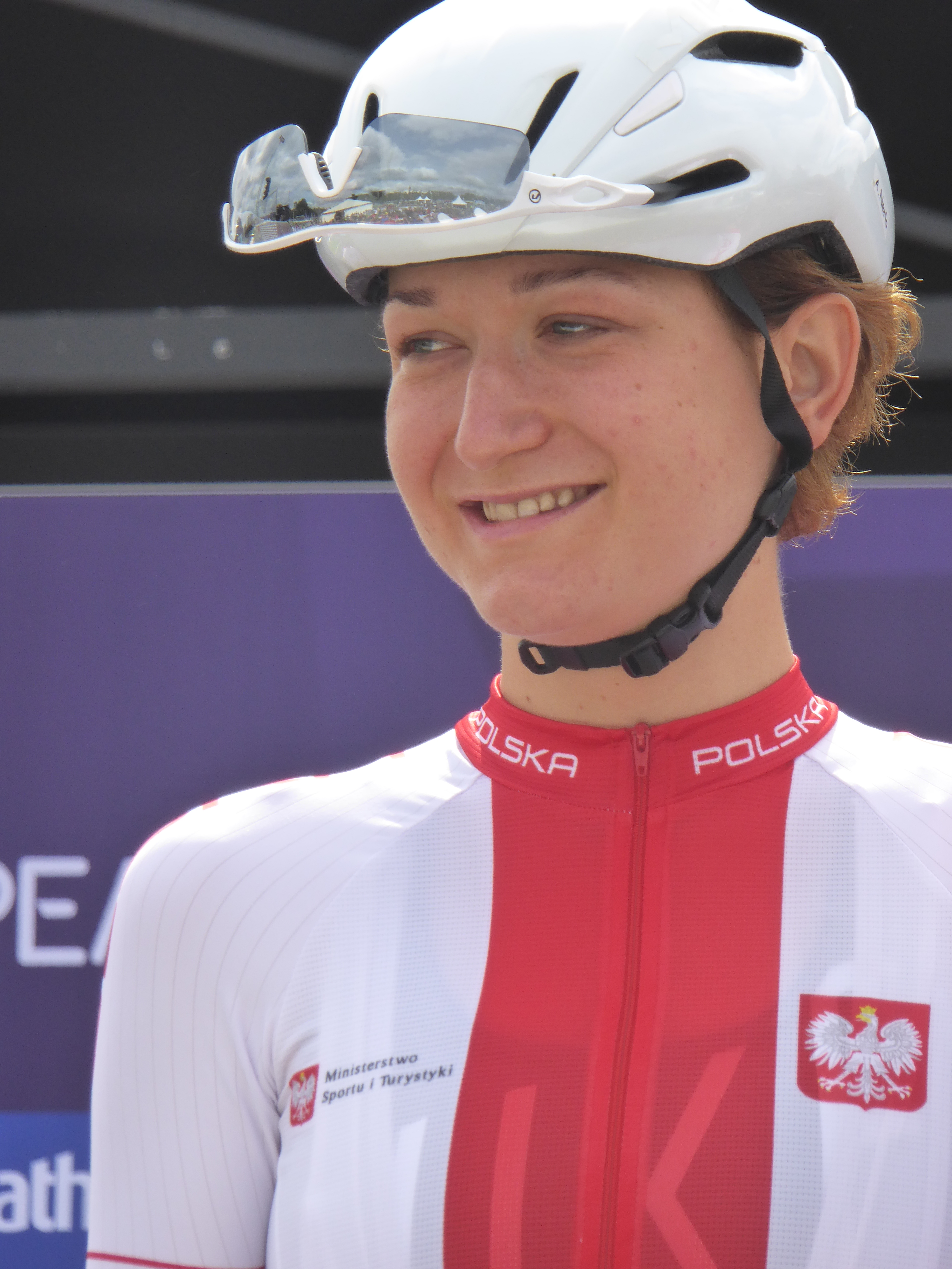 Aurela Nerlo (Poland), prior to the women's road race at the 2018 UEC European Road Cycling Championships in Glasgow.